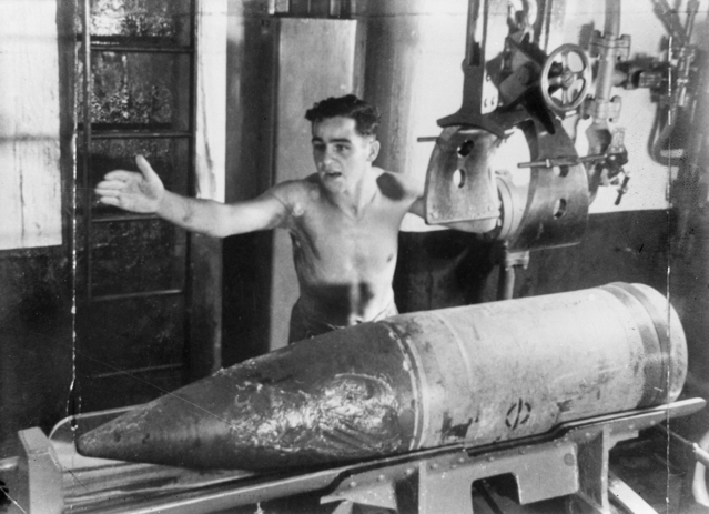 AWM Caption: "MAN BEHIND SINGAPORE GUN: DEEP BELOW THE GROUND, A GUNNER SWINGS A SHELL TOWARD THE ELEVATOR, WHICH WILL LIFT IT TO THE GUN BREECH". Comment : This appears to be a 15-inch shell.